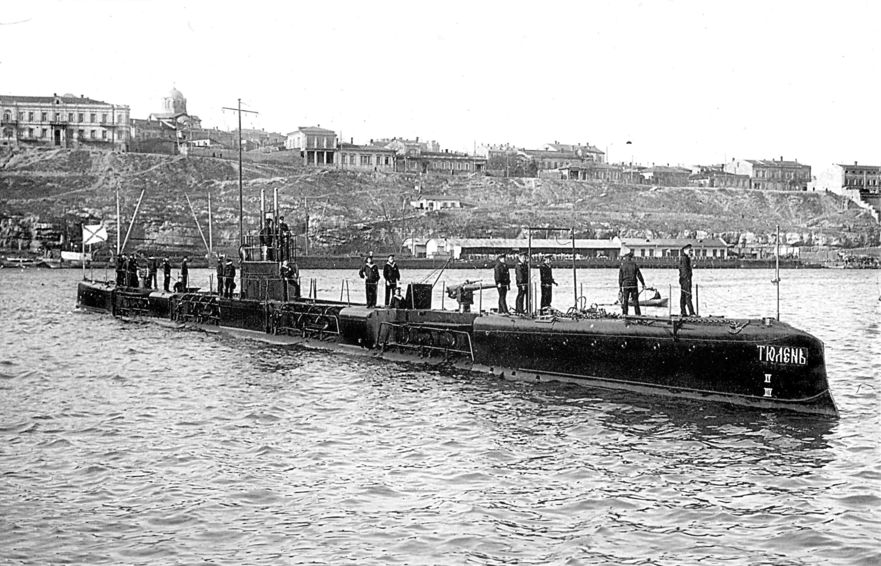 Submarine Tyulen' at Sevastopol, autumn 1915.